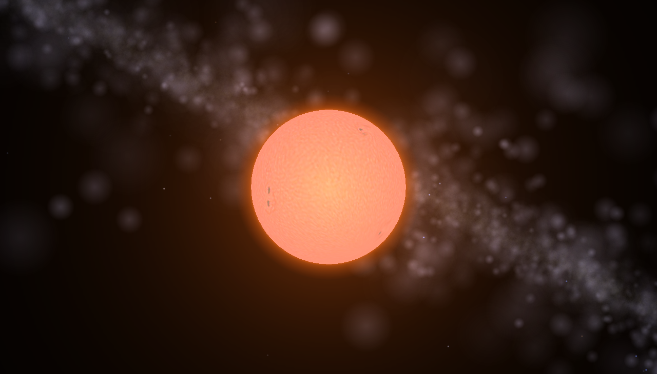 The star VX Sagittarii, red supergiant.